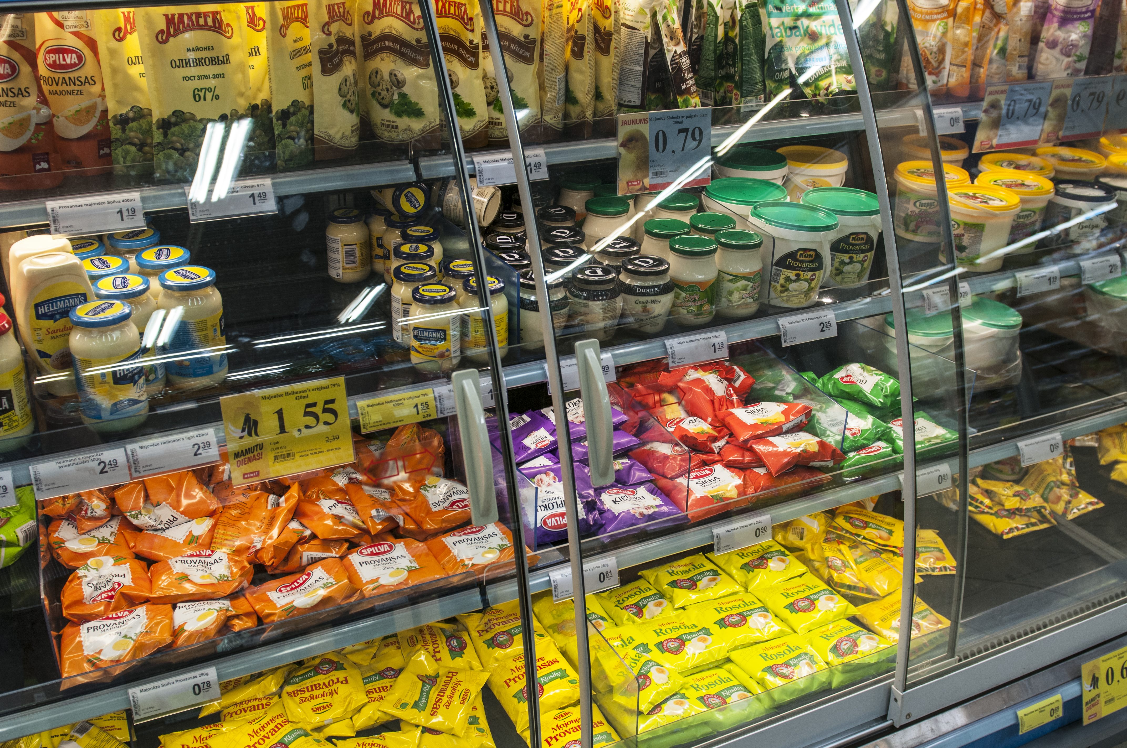 Regal mit Mayonnaise in Riga, Lettland